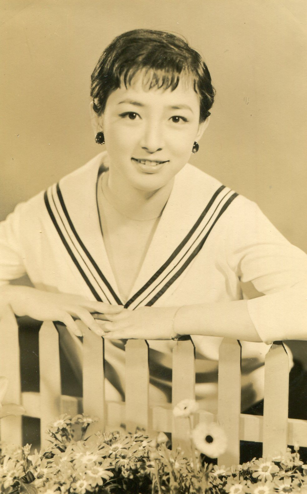 Portrait of the actress Ineko Arima (1950s)